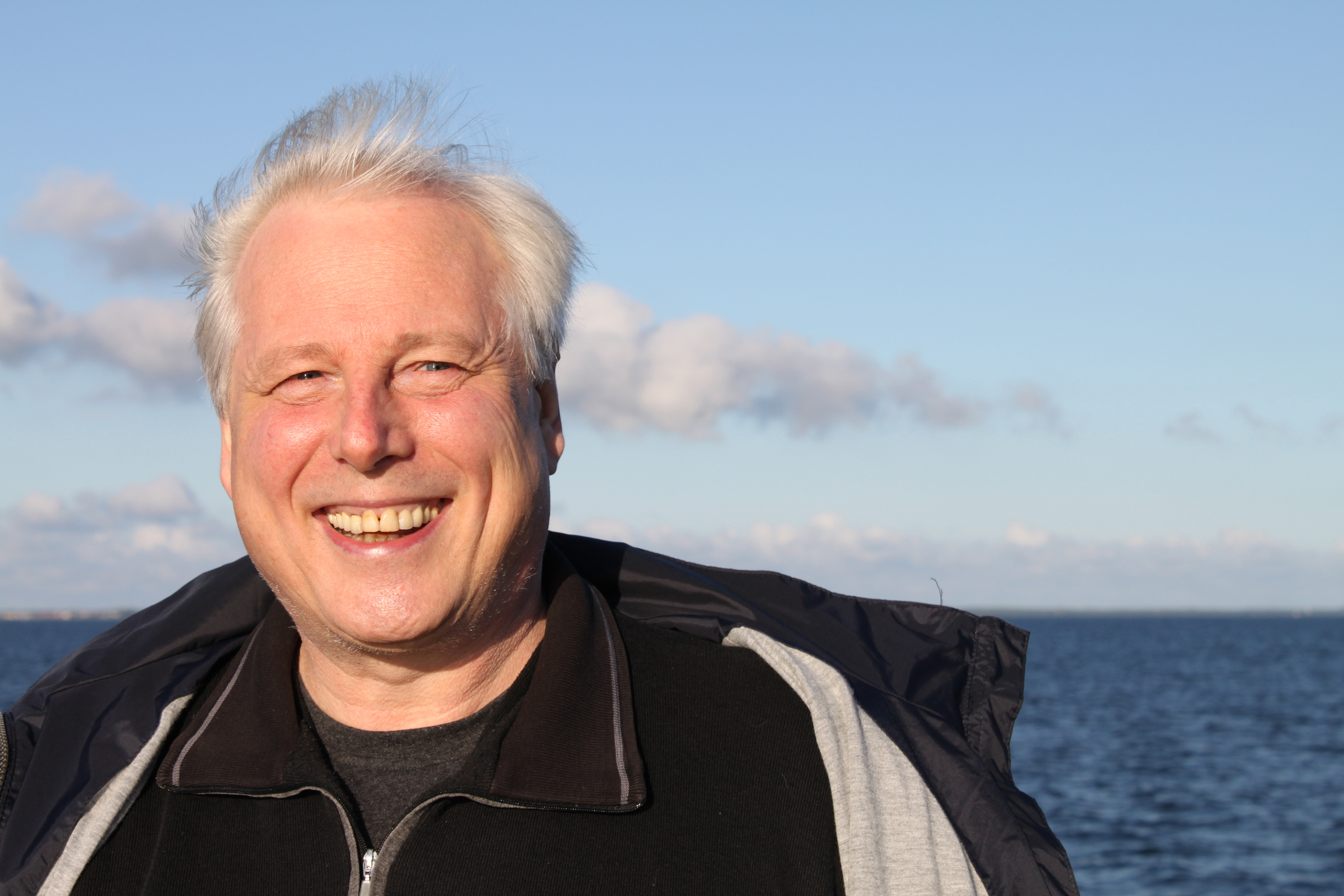 German social scientist, pundit, translator and publisher Jochen Schmück